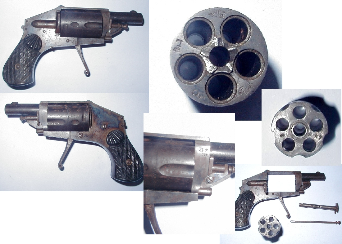 I need to fully identify this velodog I own as I couldn't find any velodog pictures on the web that were similar to mine, nor the marks shown on the pictures. Wonder if you can help. Thank you, Ana Reis from Portugal